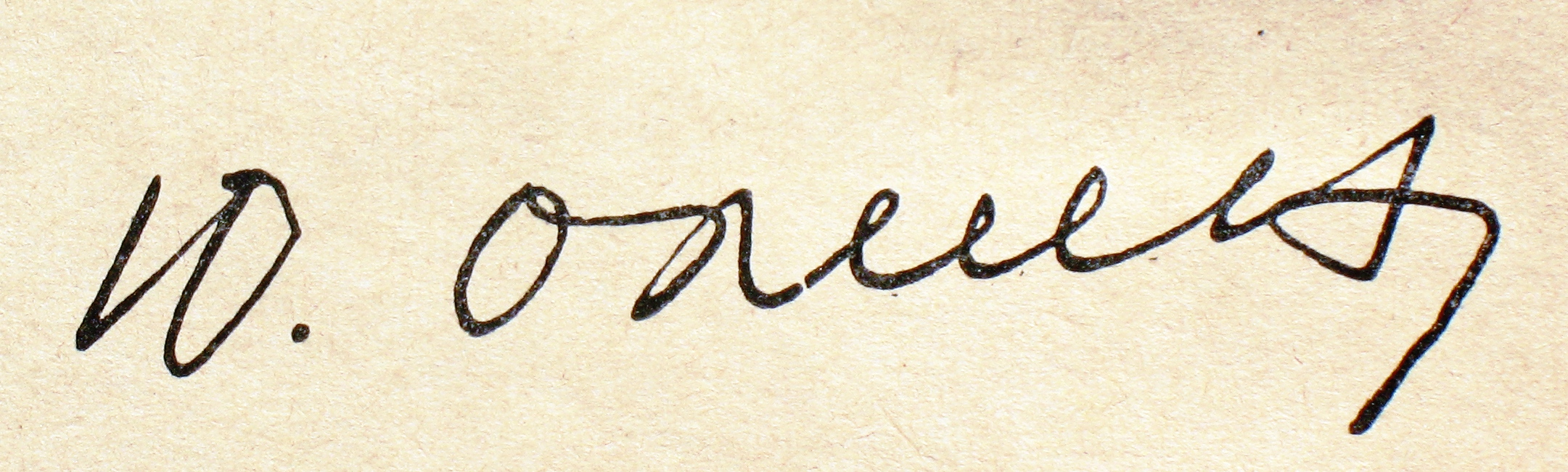 Russian writer Yury Olesha signature in his book